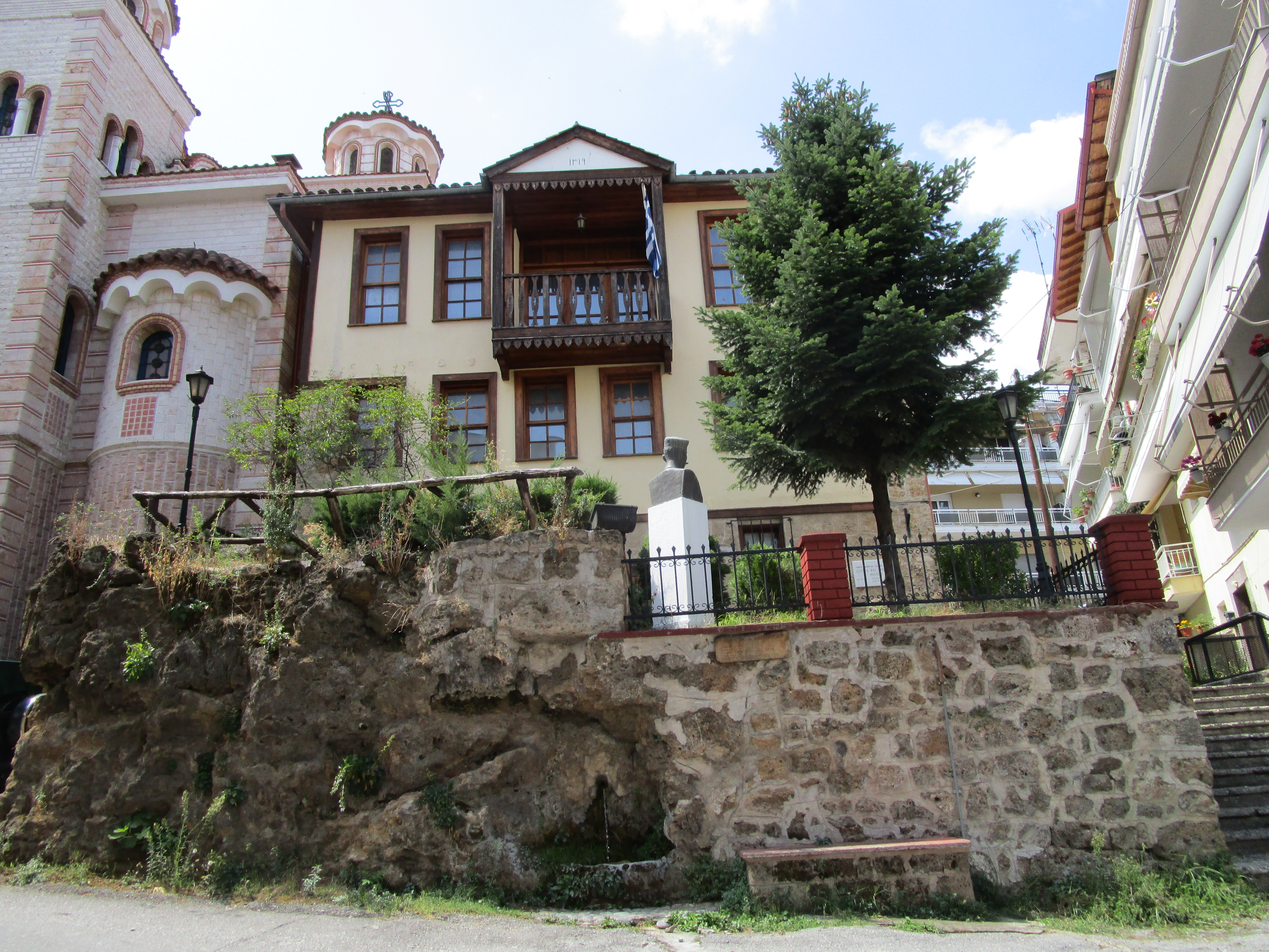 Historical museum, Negush